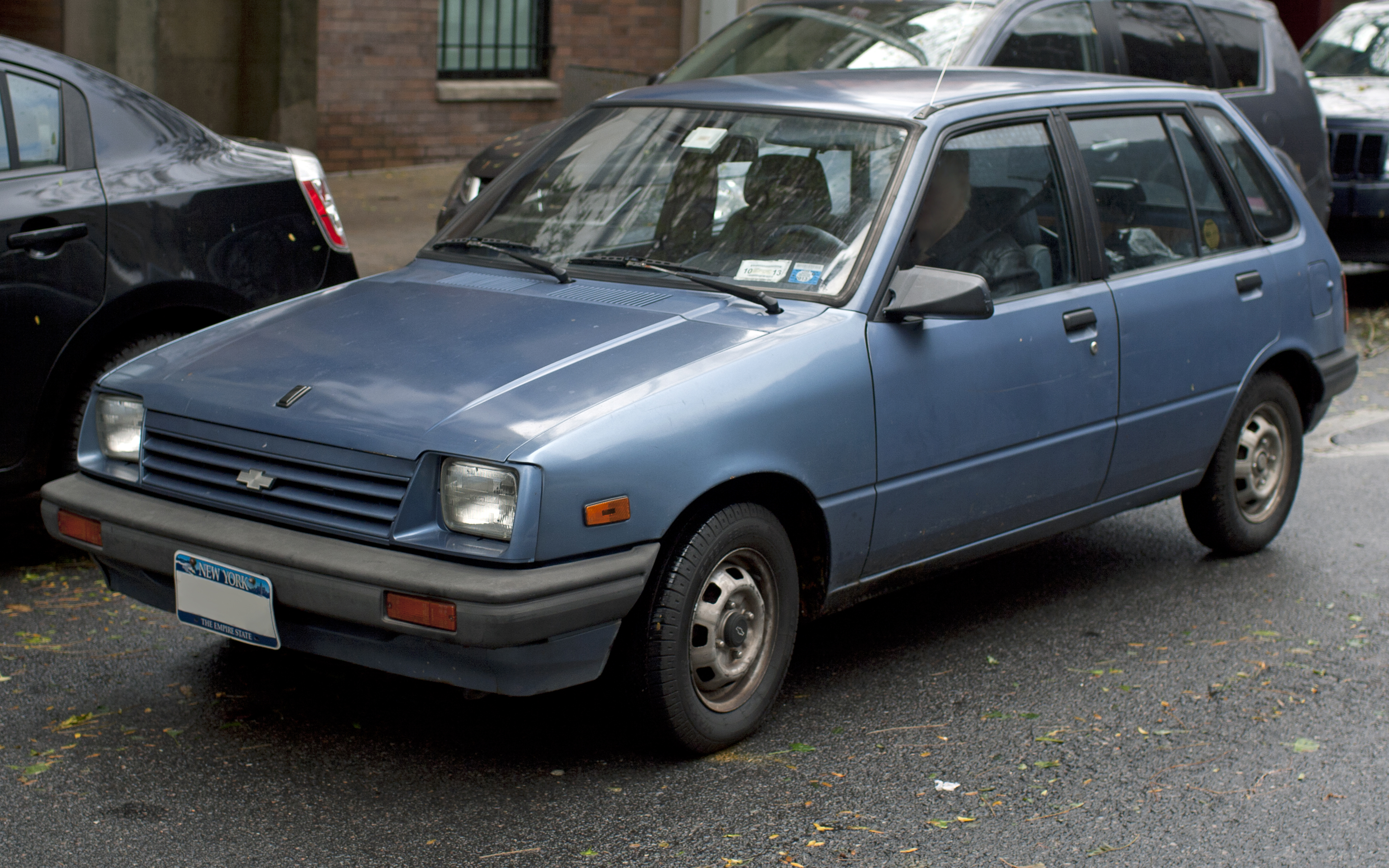 1986 Chevrolet Sprint Plus, that is to say, the five-door version.